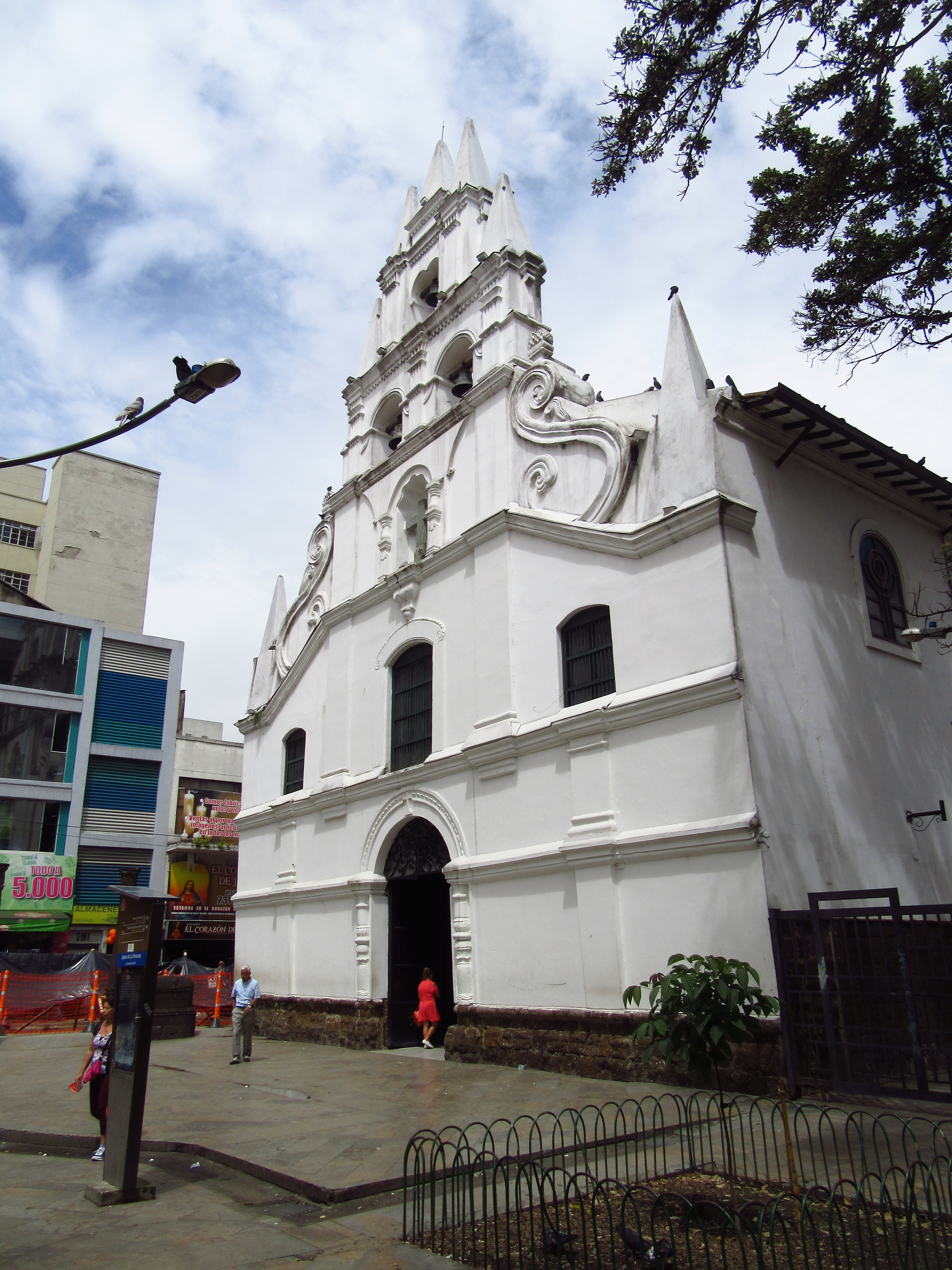 Medellín